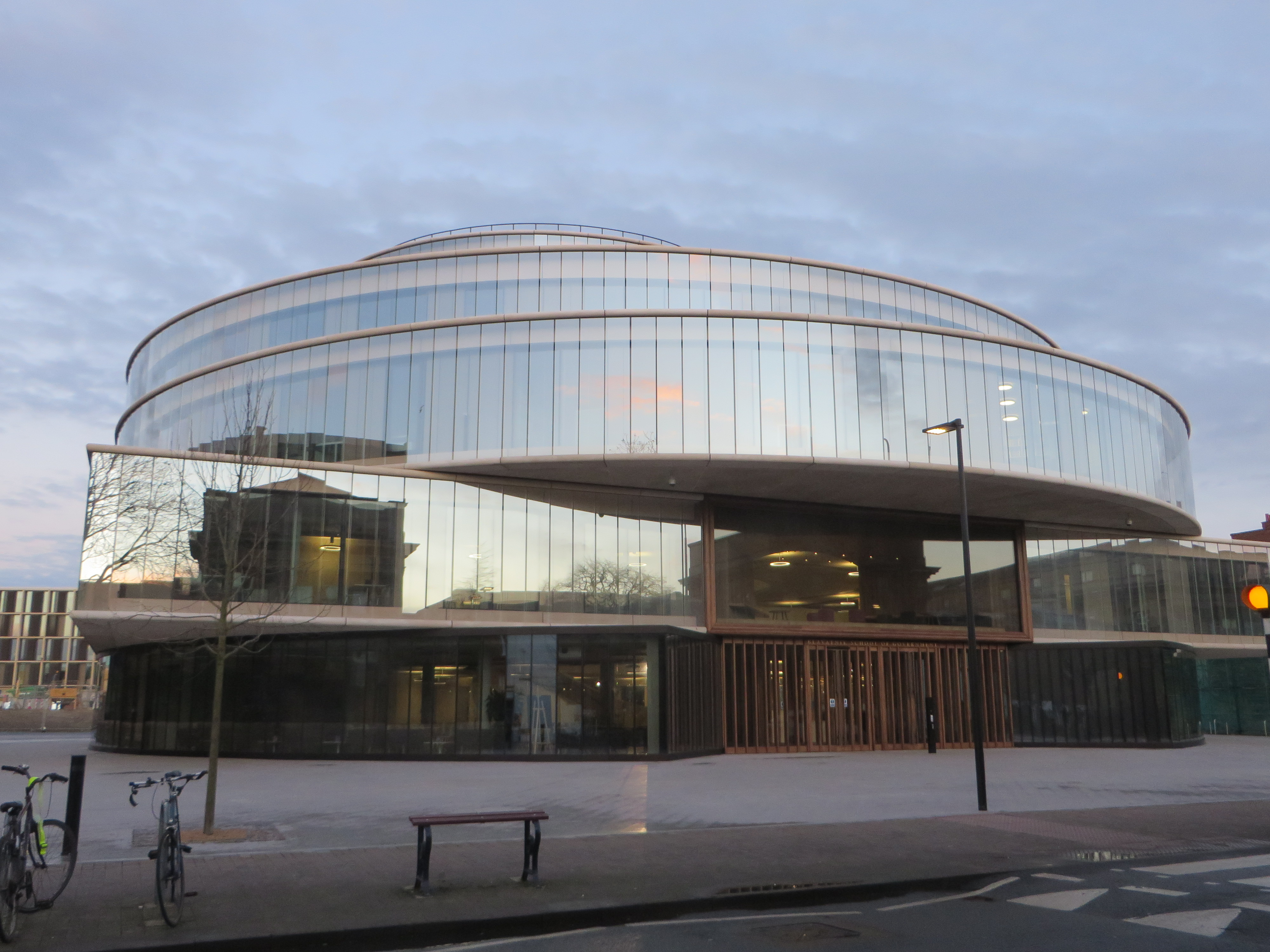 The Blavatnik School of Government building of Oxford University, in Walton Street, Oxford, England